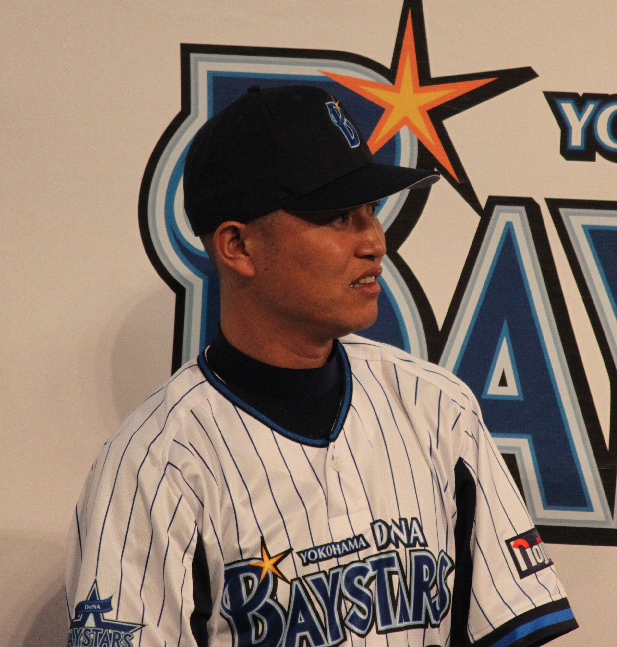 Kazunari Tsuruoka, catcher of the Yokohama DeNA BayStars, at Queen's Square Yokohama.